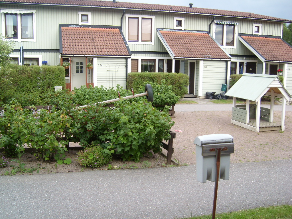 Part of the residential area Lyckebo in Storvreta, about 15 km north of Uppsala, Sweden. The area was built in 1983–1985.